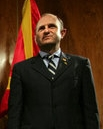 Macedonian Prime Minister Vlado Buckovski during a meeting at Dubrovnik, Croatia, on May 7, 2006.